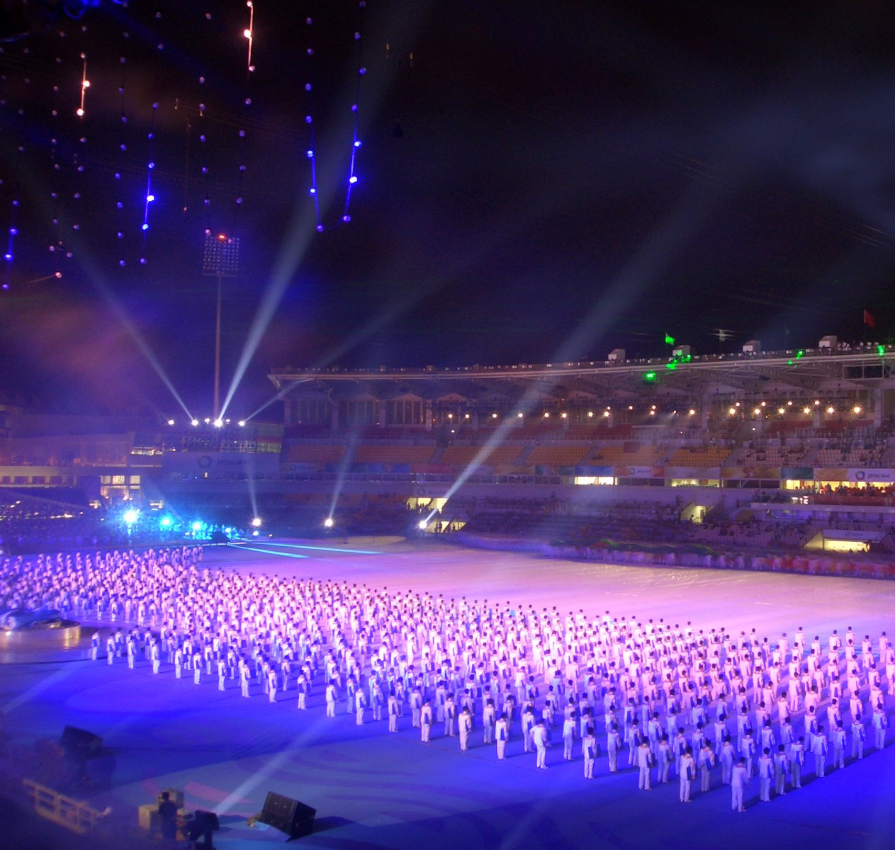 The_4TH_East_Asian_Games_hkms_show